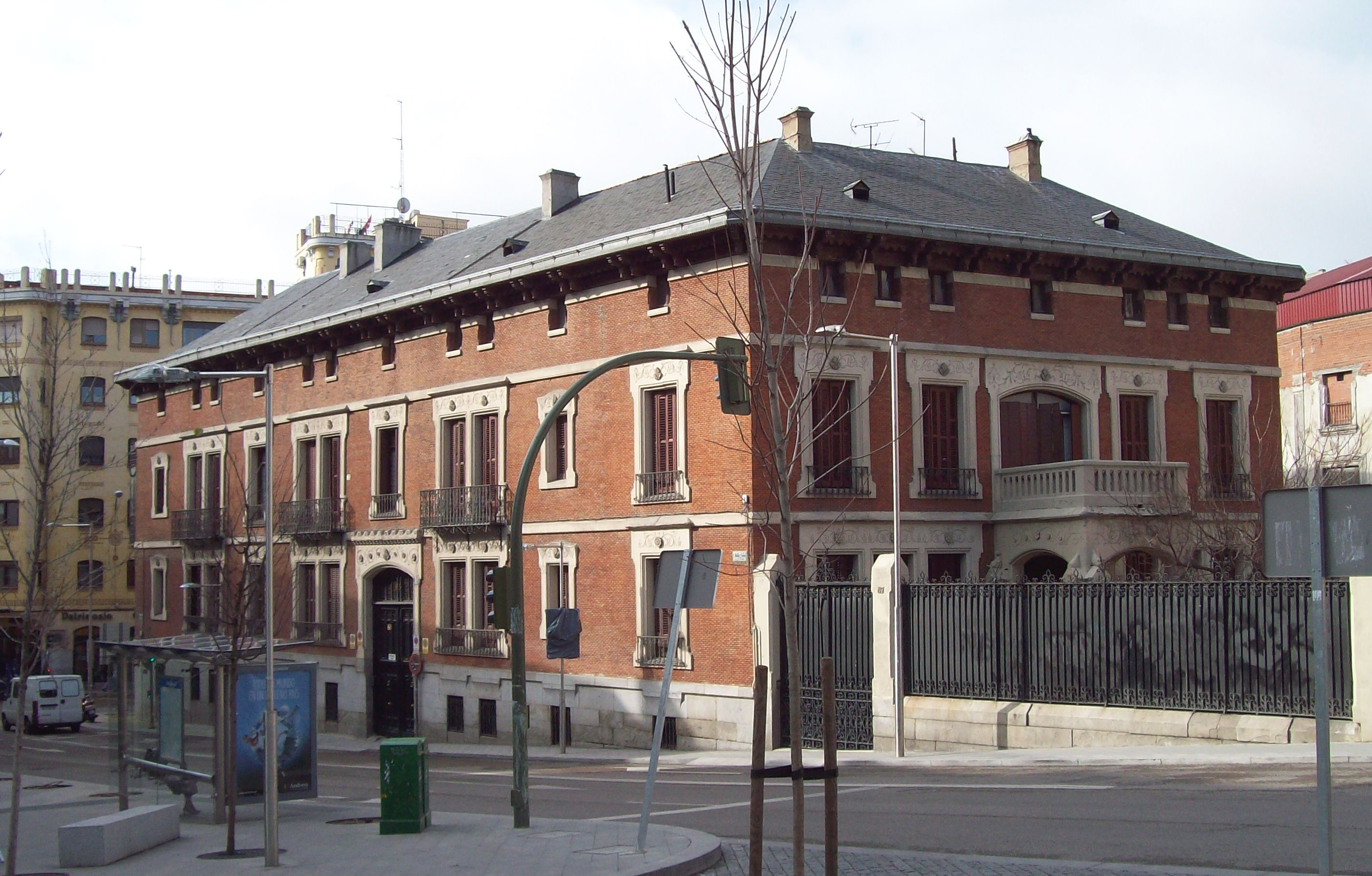 Façade of the Palace of the Count of Villagonzalo in Madrid (Spain).